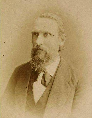 Portrait of Ernst Behm